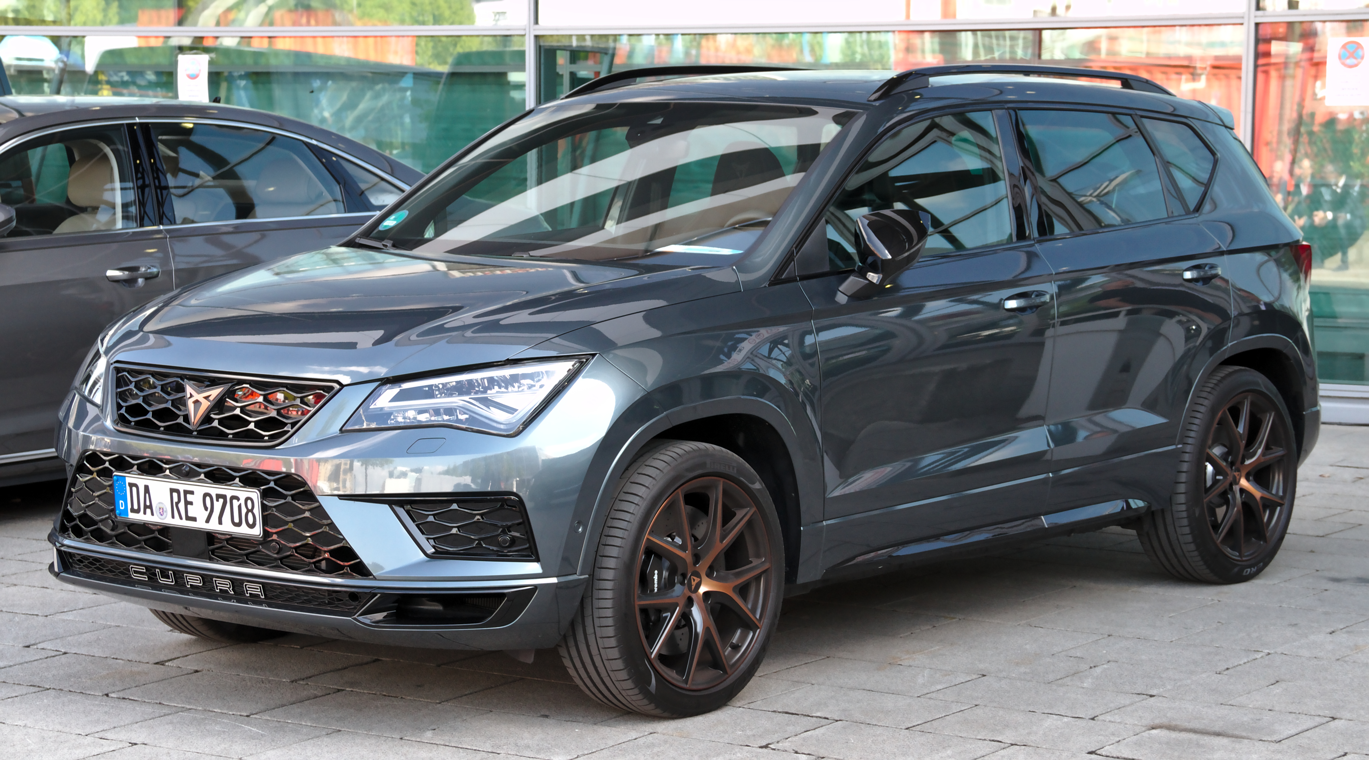 Cupra_Ateca at IAA 2019